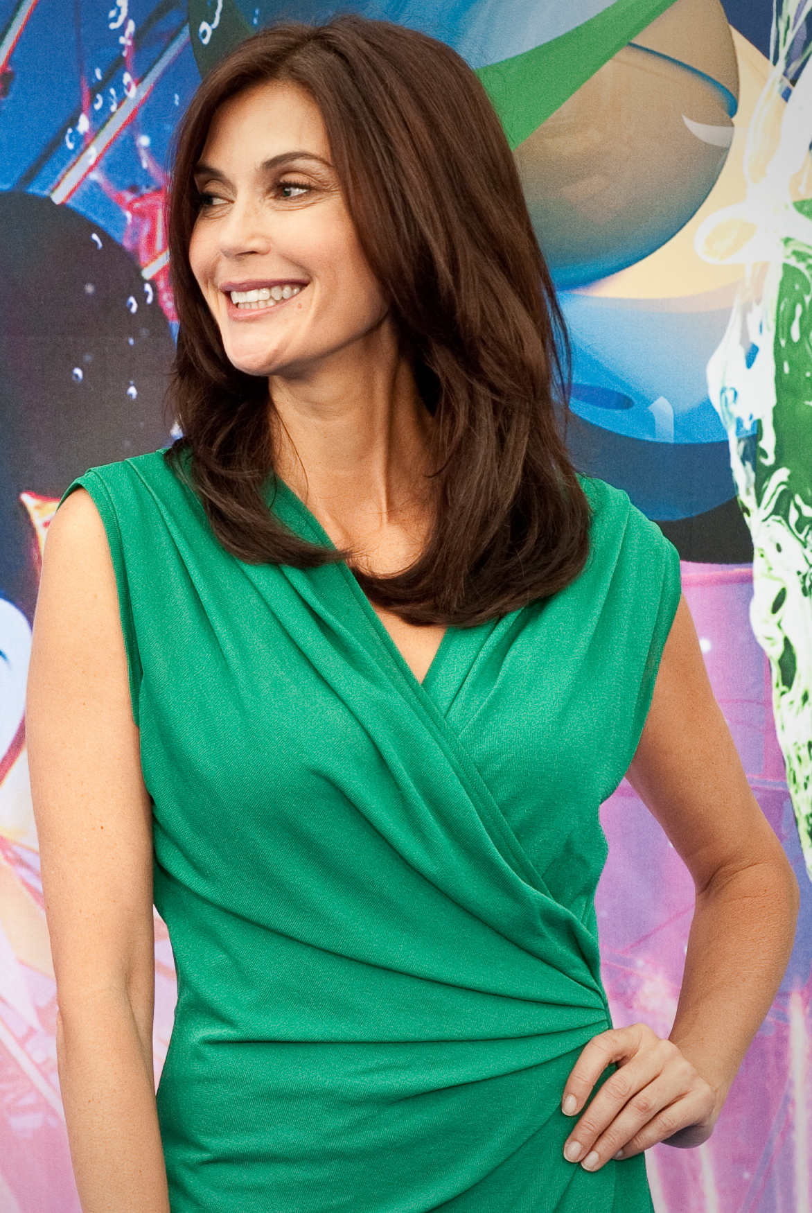 Teri Hatcher at the World of Color Premiere Disney California Adventure